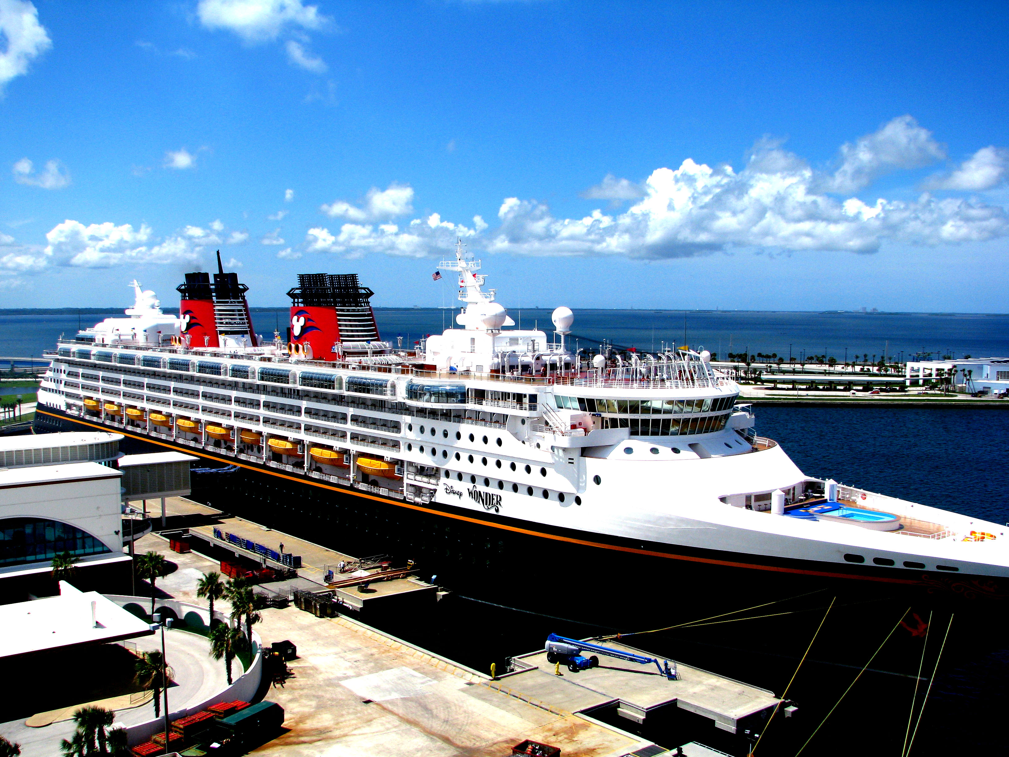 Disney Wonder at Port Canaveral Information about Disney Wonder may be found at IMO 9126819. A ship can change name and flag state through time, but the IMO number remains the same through the hull's entire lifetime. As a result, it can be useful to identify a ship by using the IMO number.